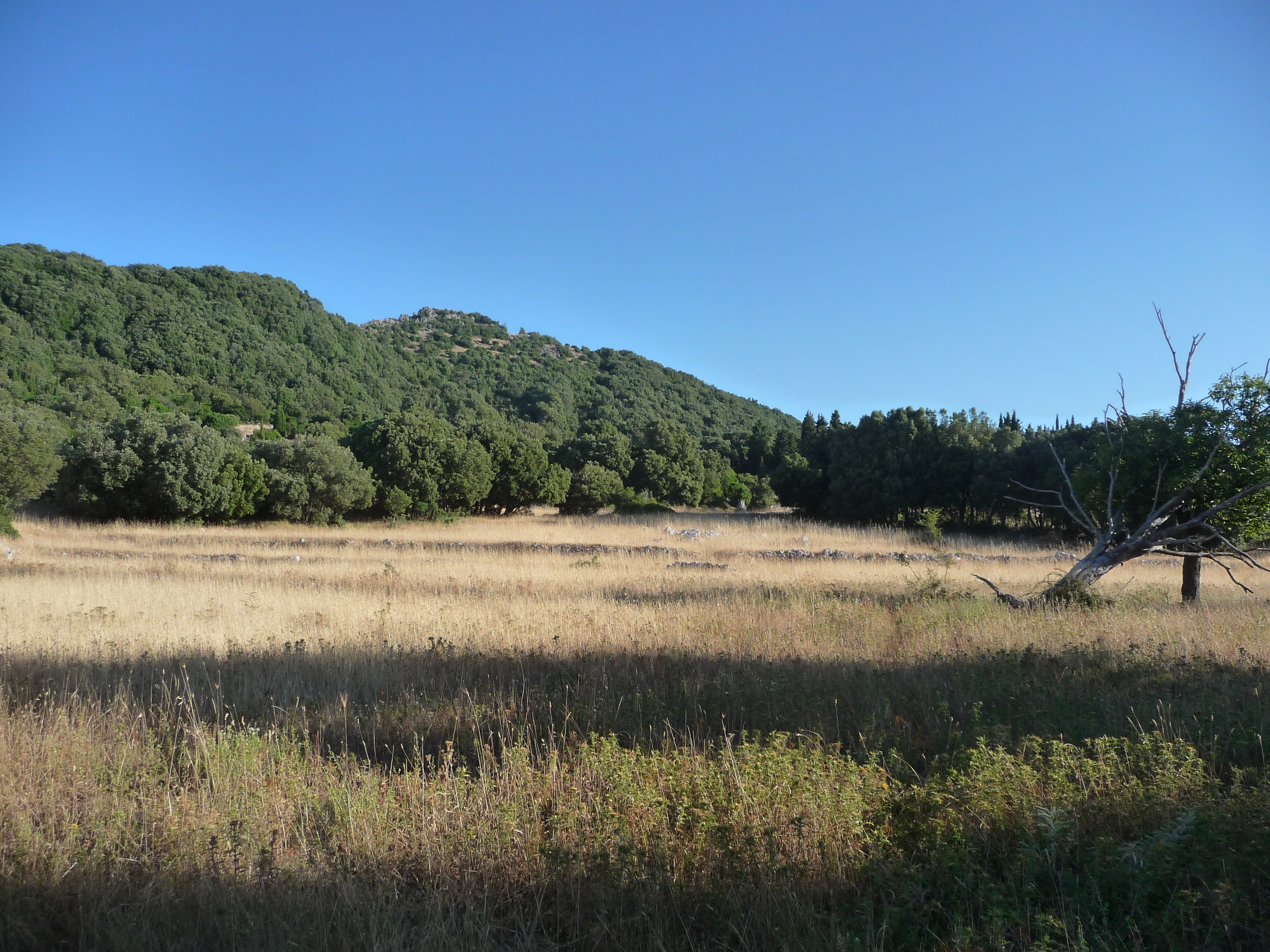 plateaus of Rufo